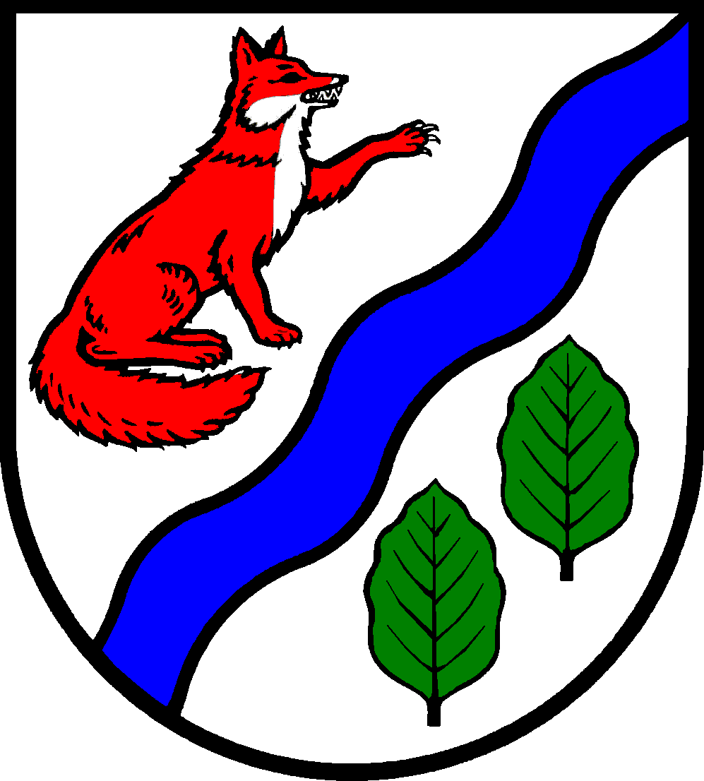 Coat of arms of the municipalitie Bokholt-Hanredder in Schleswig-Holstein, Germany.